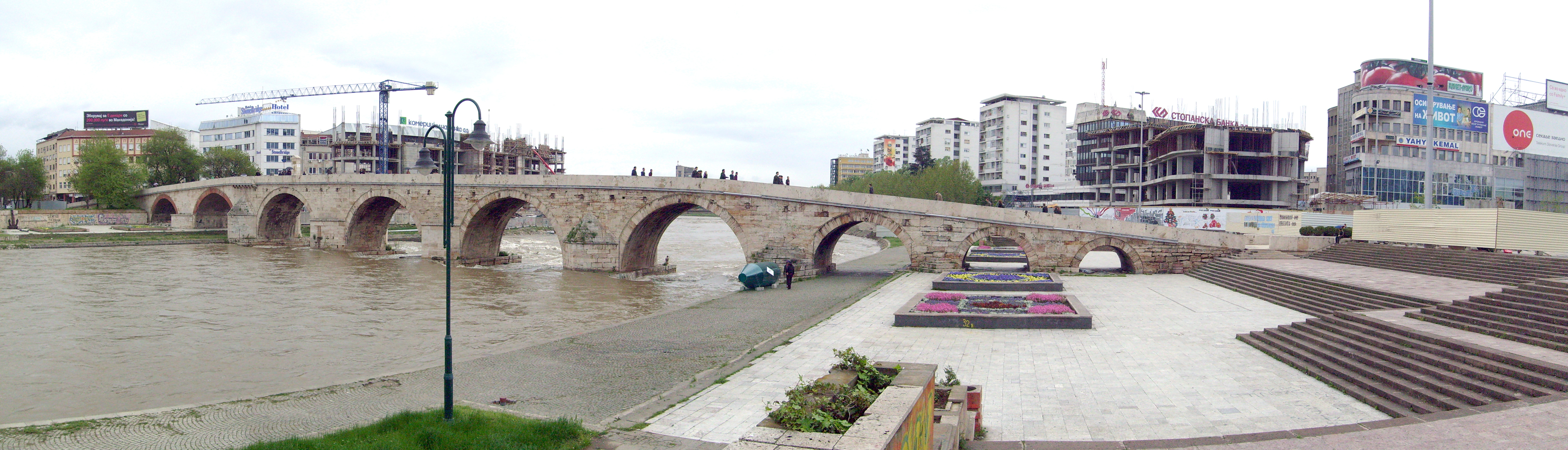 Fatih Sultan Mehmet Bridge / Stone Bridge (Skopje / Republic of Macedonia)